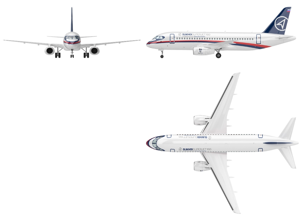 This drawing represents three views of the Sukhoi SuperJet 100